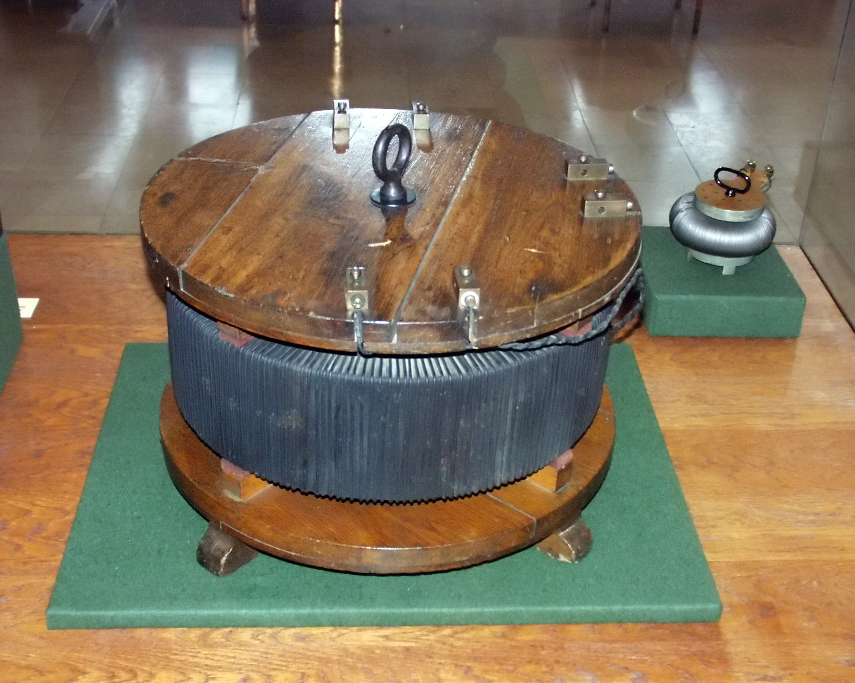 First transformers (Déri-Bláthy-Zipernovski, Budapest 1885.) Széchenyi István Memorial Exhibition in Nagycenk